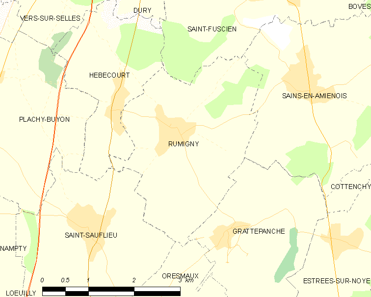 Map of French municipality Rumigny